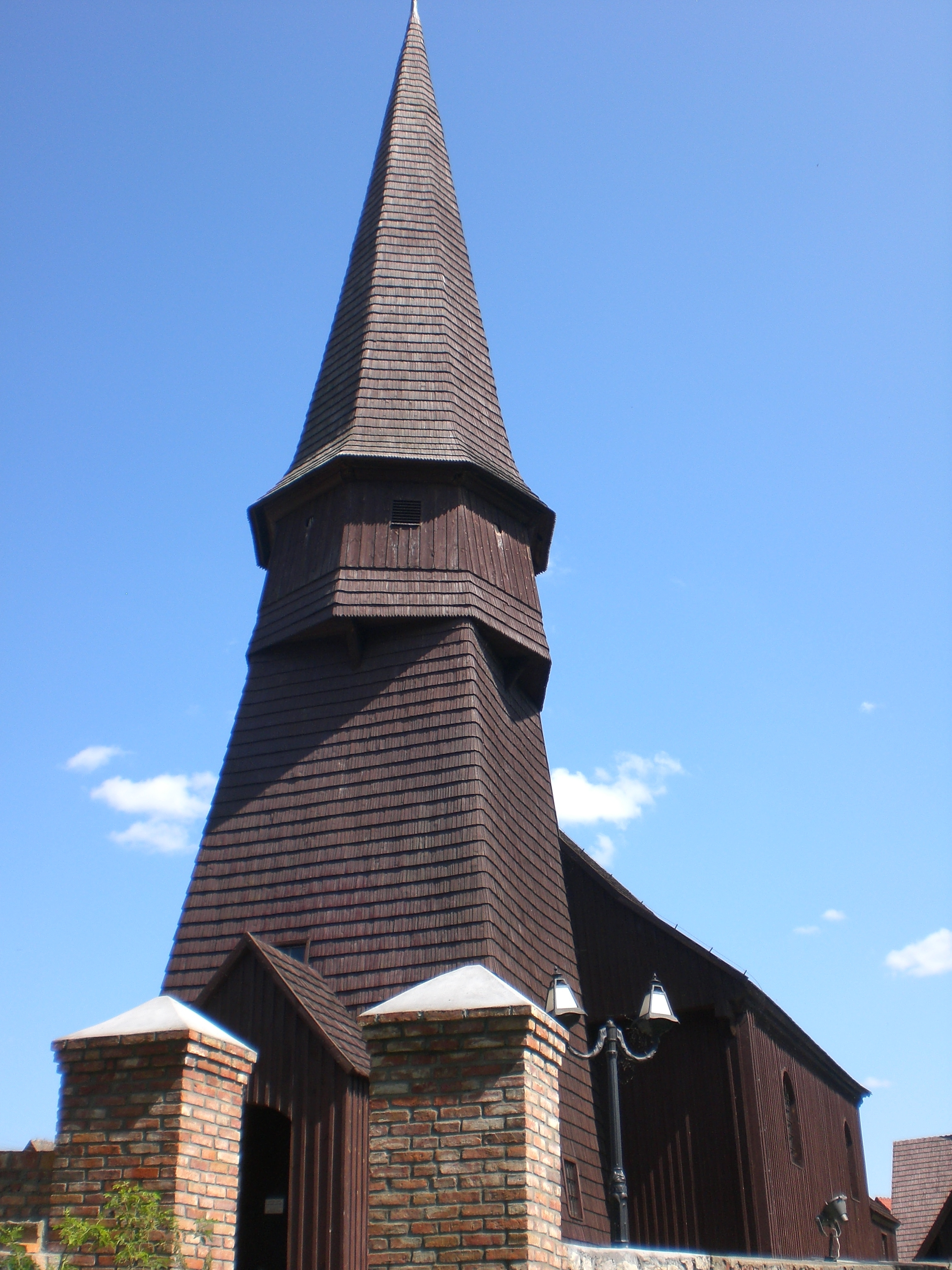 Exaltation of the Holy Cross church in Leśno, Poland